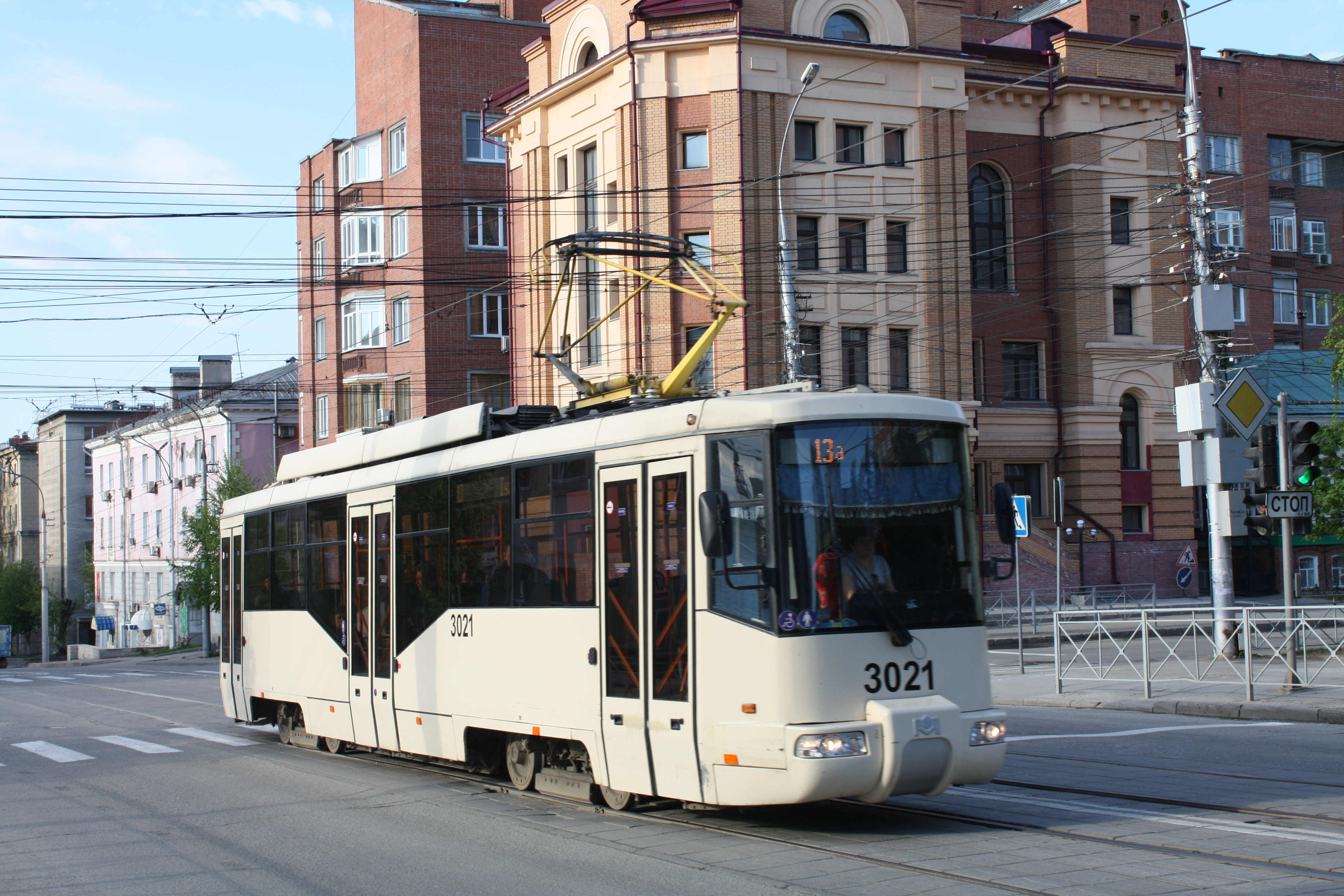 Tram BKM 62103 № 3021 in Novosibirsk, Serebrennikovskaya Street.